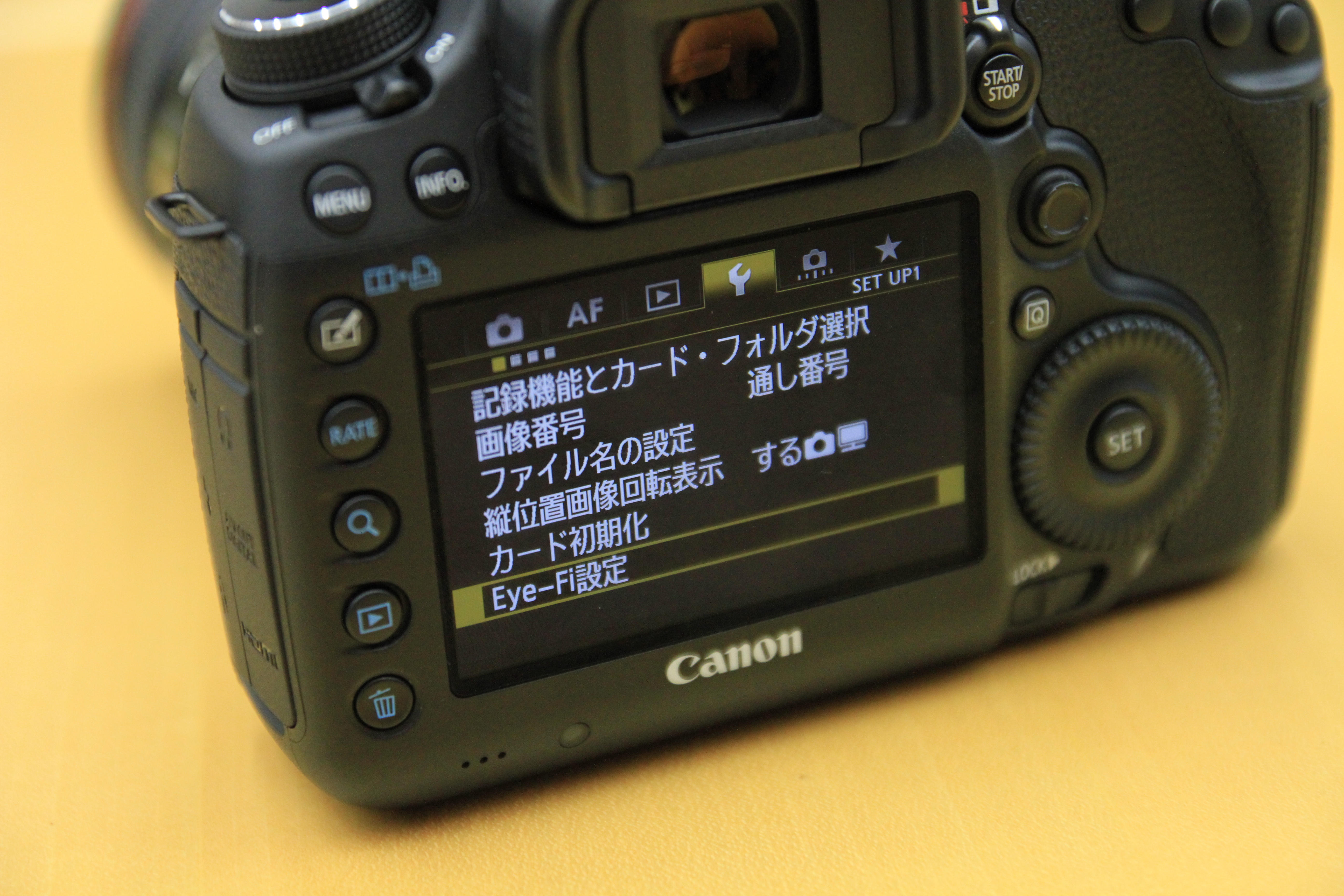 Canon EOS 5D Mark III, setup menu